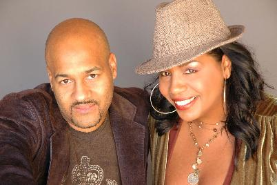 Reuben and Sylvia MacCalla, brother and sister, founders of Livin Out Loud